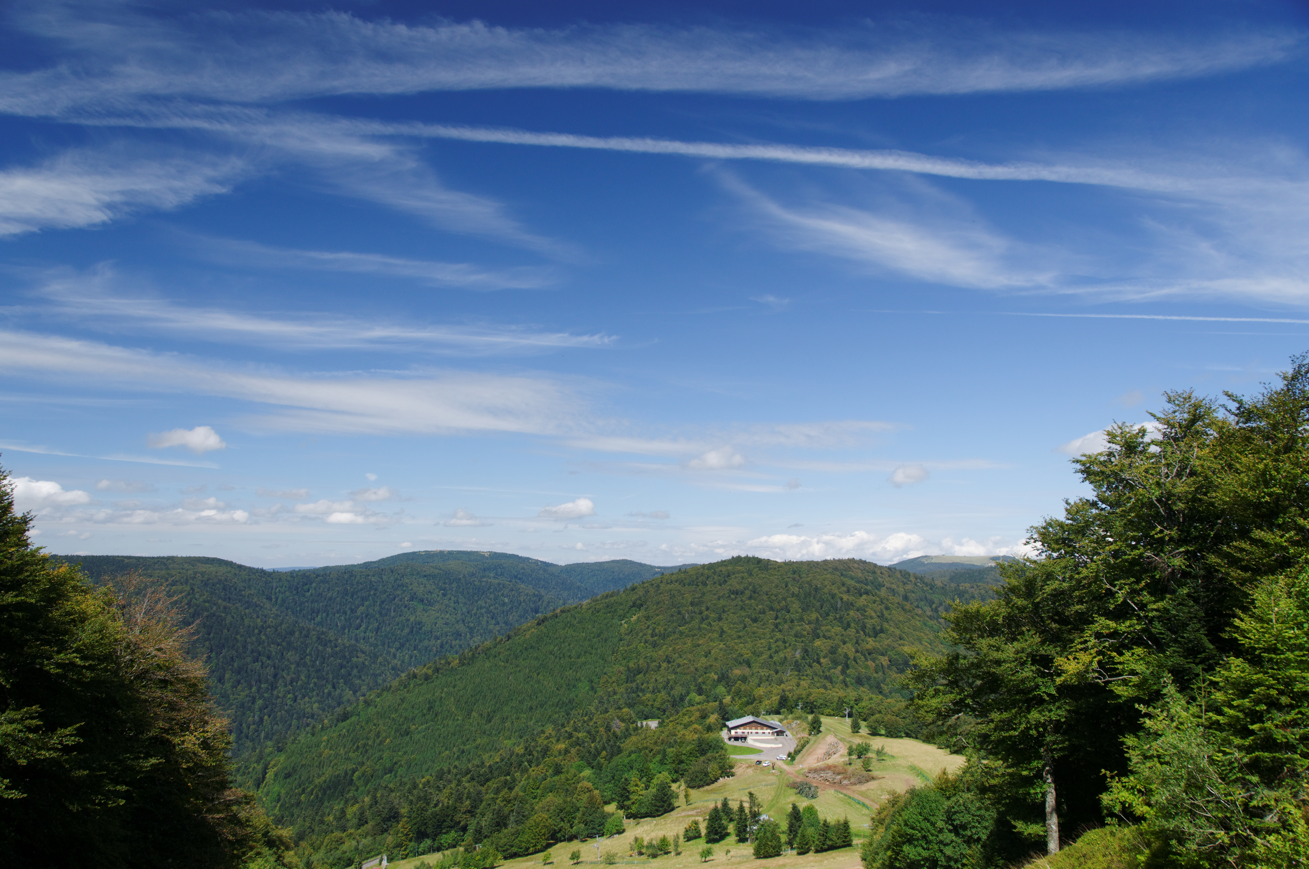 This photograph was taken with a Nikon D300